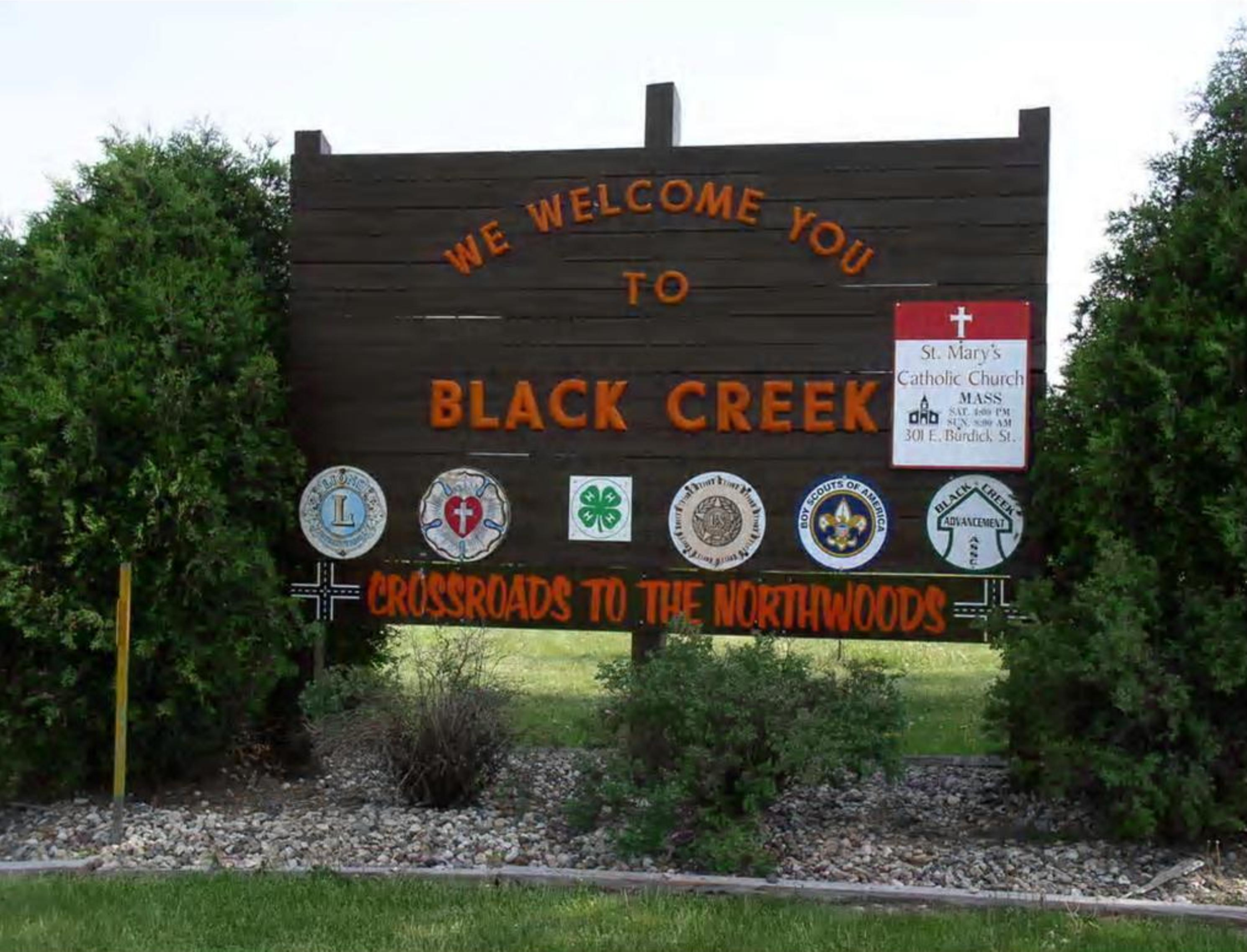 Village welcome signage for Black Creek, Wisconsin. Replaced in 2017.